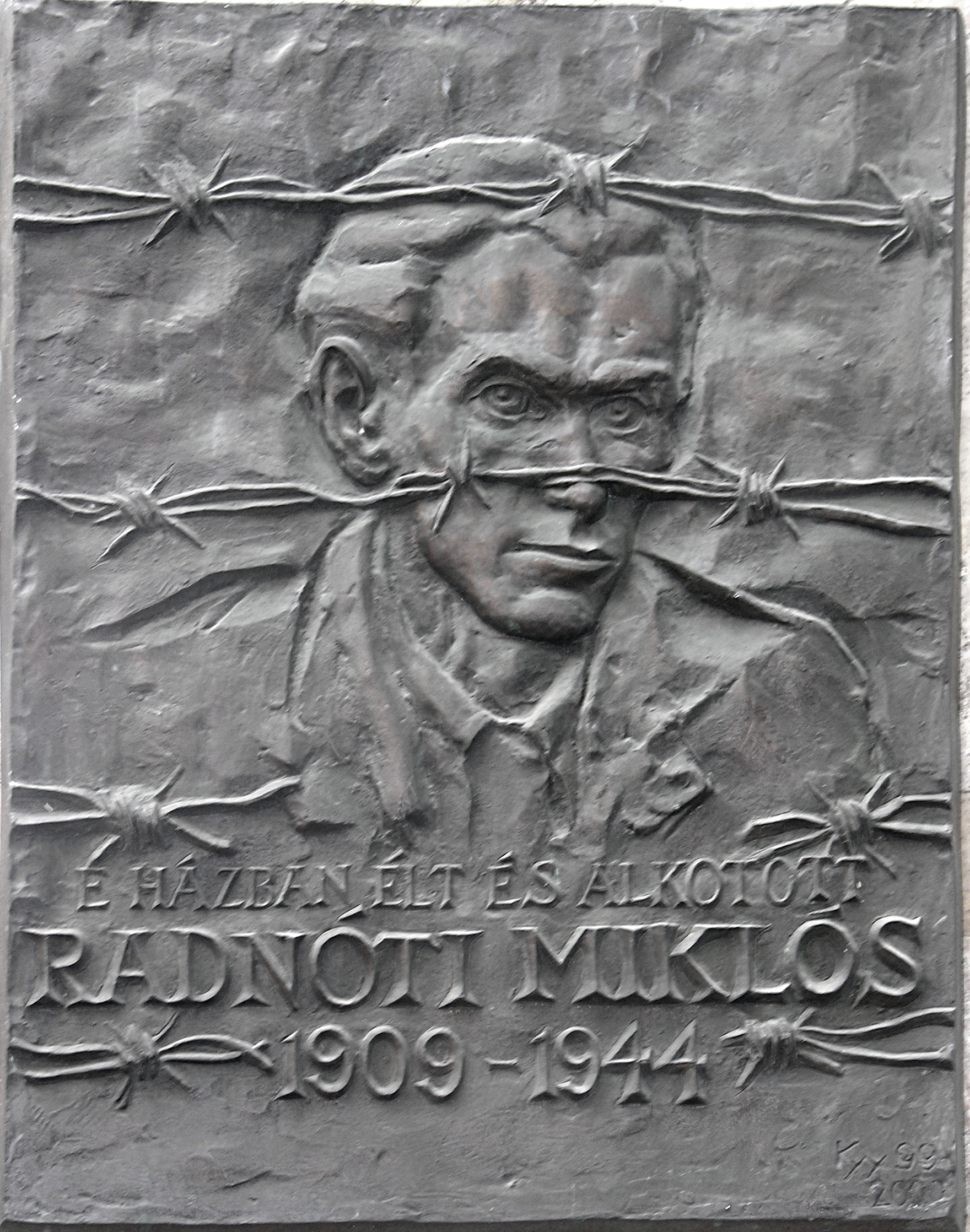 Commemorative plaque to Mr. Miklós Radnóti (1909–1944) Hungarian poet and translator. It is affixed to the wall of the house where he lived and worked. The author of the bronz relief is Mr. György Kiss. (Budapest, District XIII, Pozsonyi Street Nr 1).